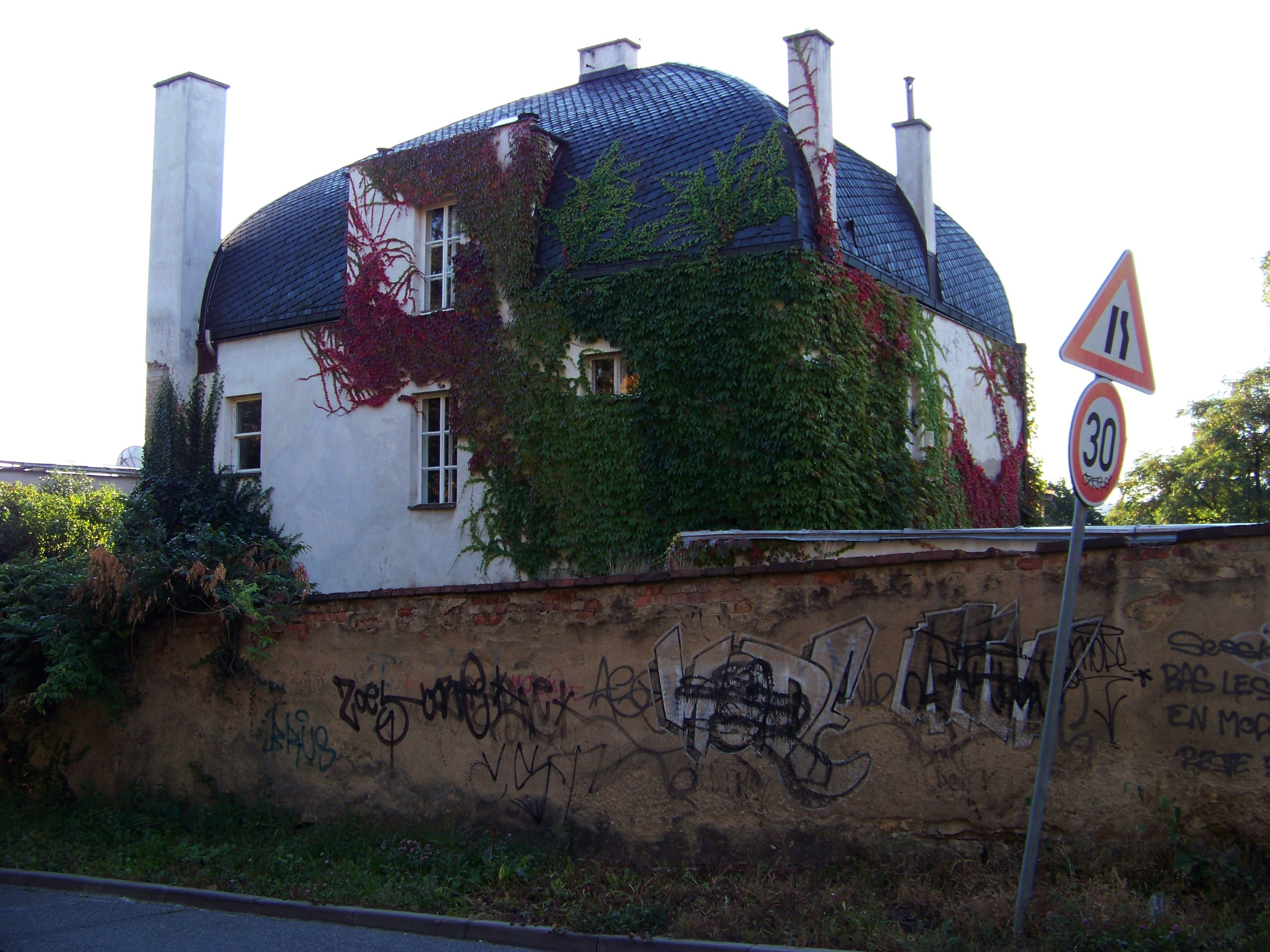 Prague-Smíchov, the Czech Republic. U Mrázovky 2071/7.